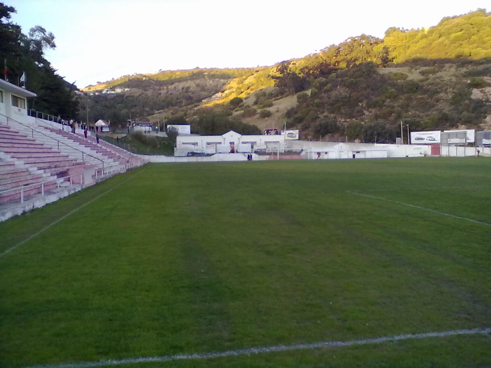 Vila Amália Stadium in Sesimbra